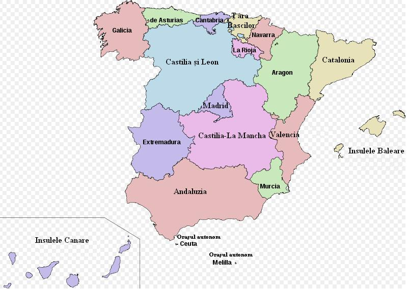 Tranlating the map into romanian language.